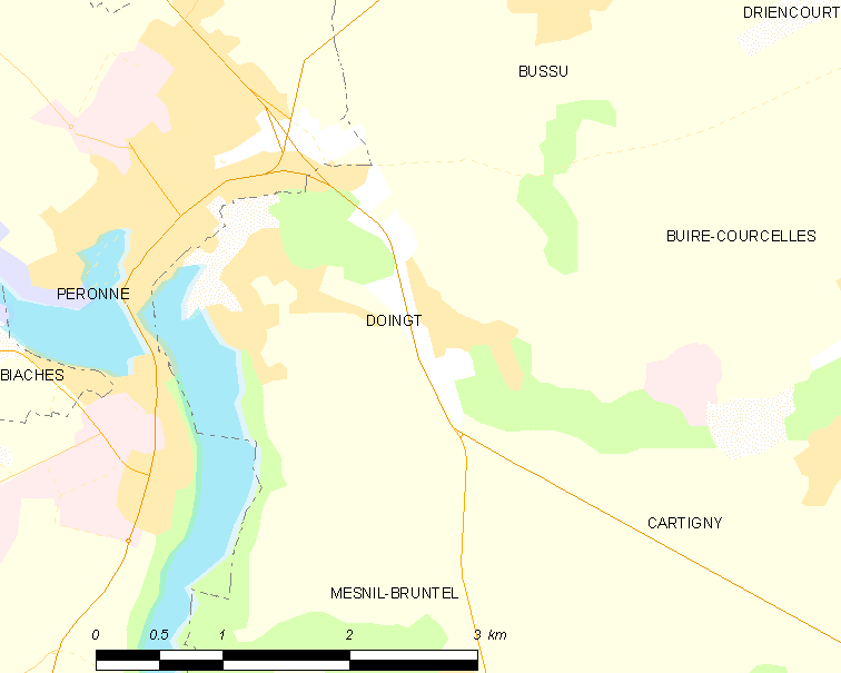 Map of French municipality Doingt